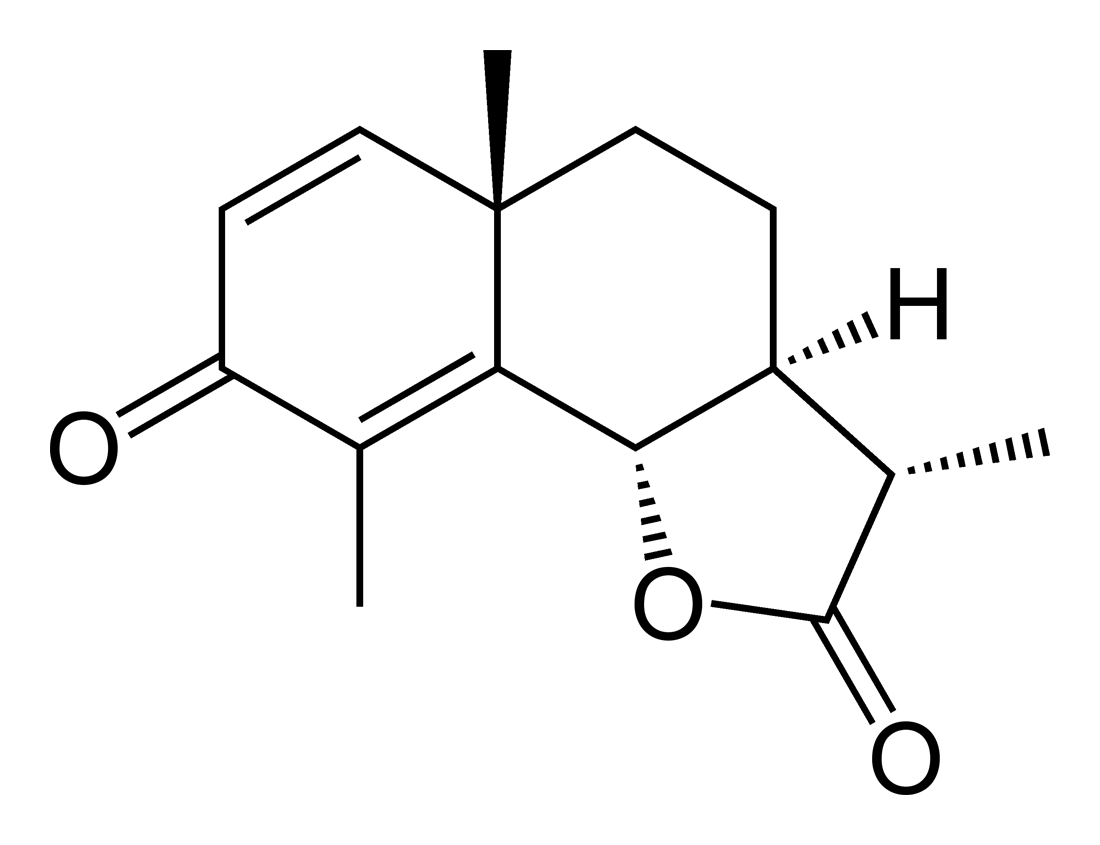 Skeletal formula of the santonin molecule, C15H18O3.